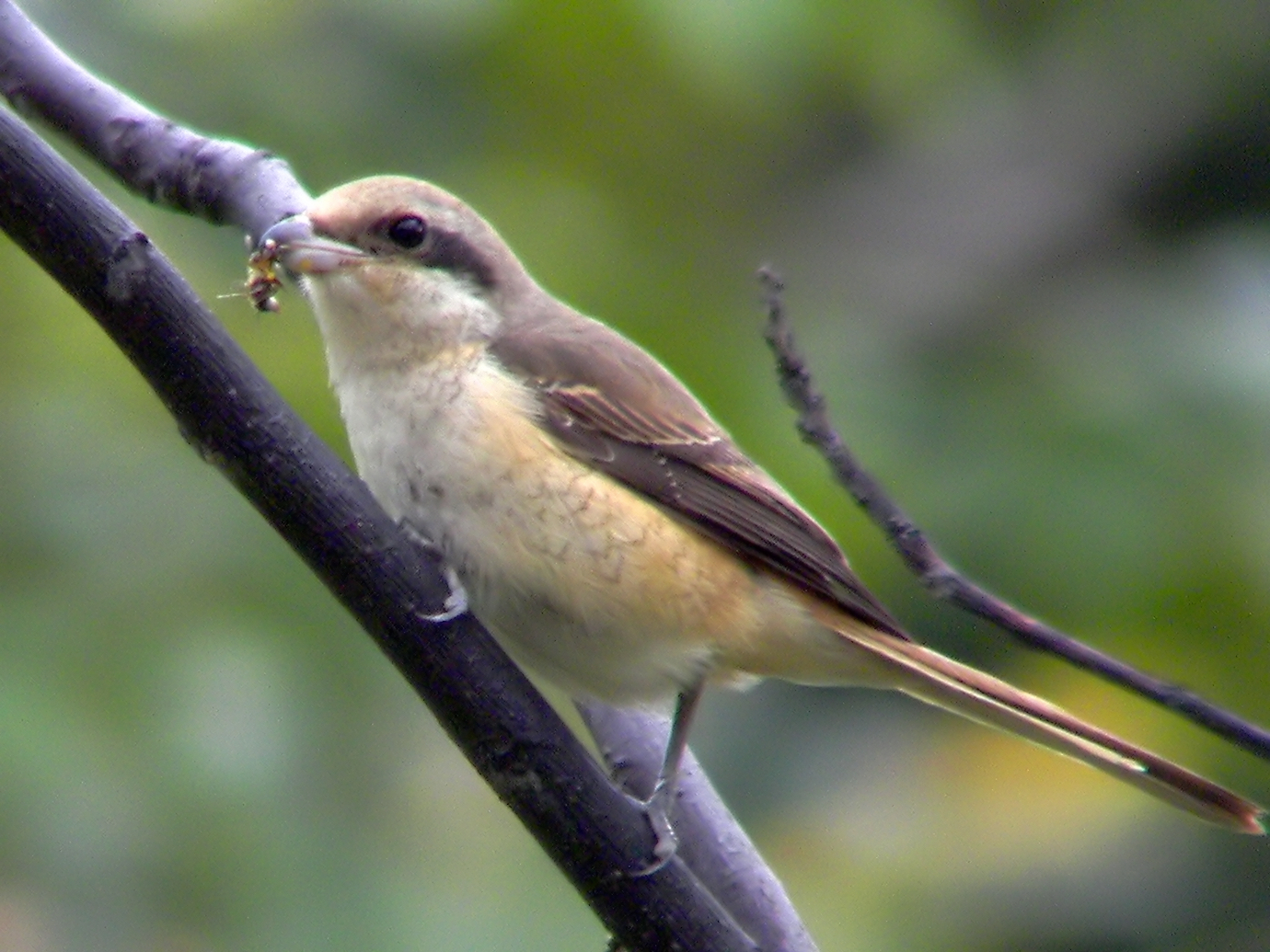 新年快樂,豐衣足食。 Brown Shrike